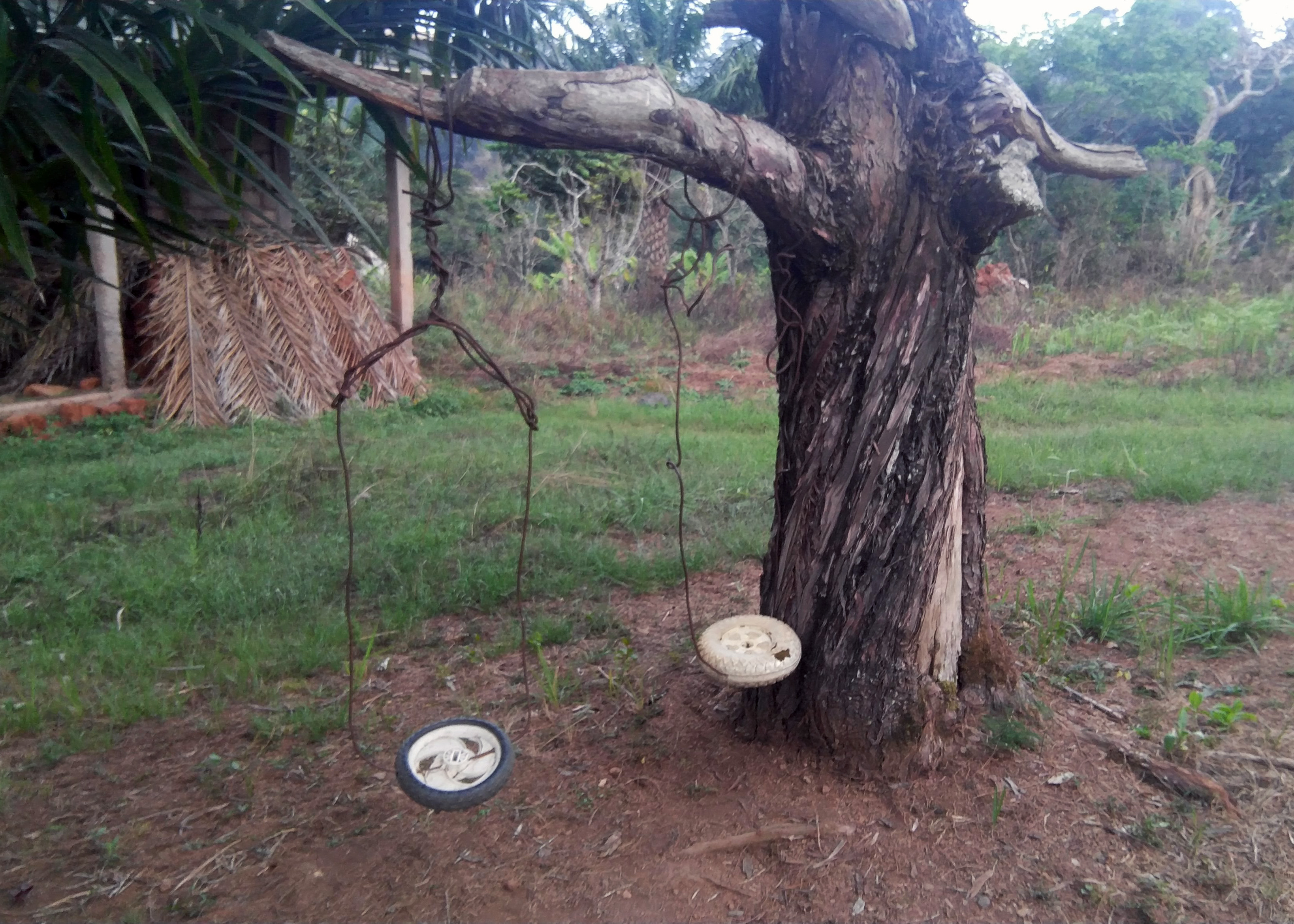 This is an image with the theme "Play" from: Cameroon